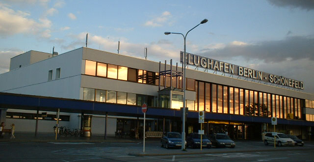 Terminal A of Berlin Schönefeld airport